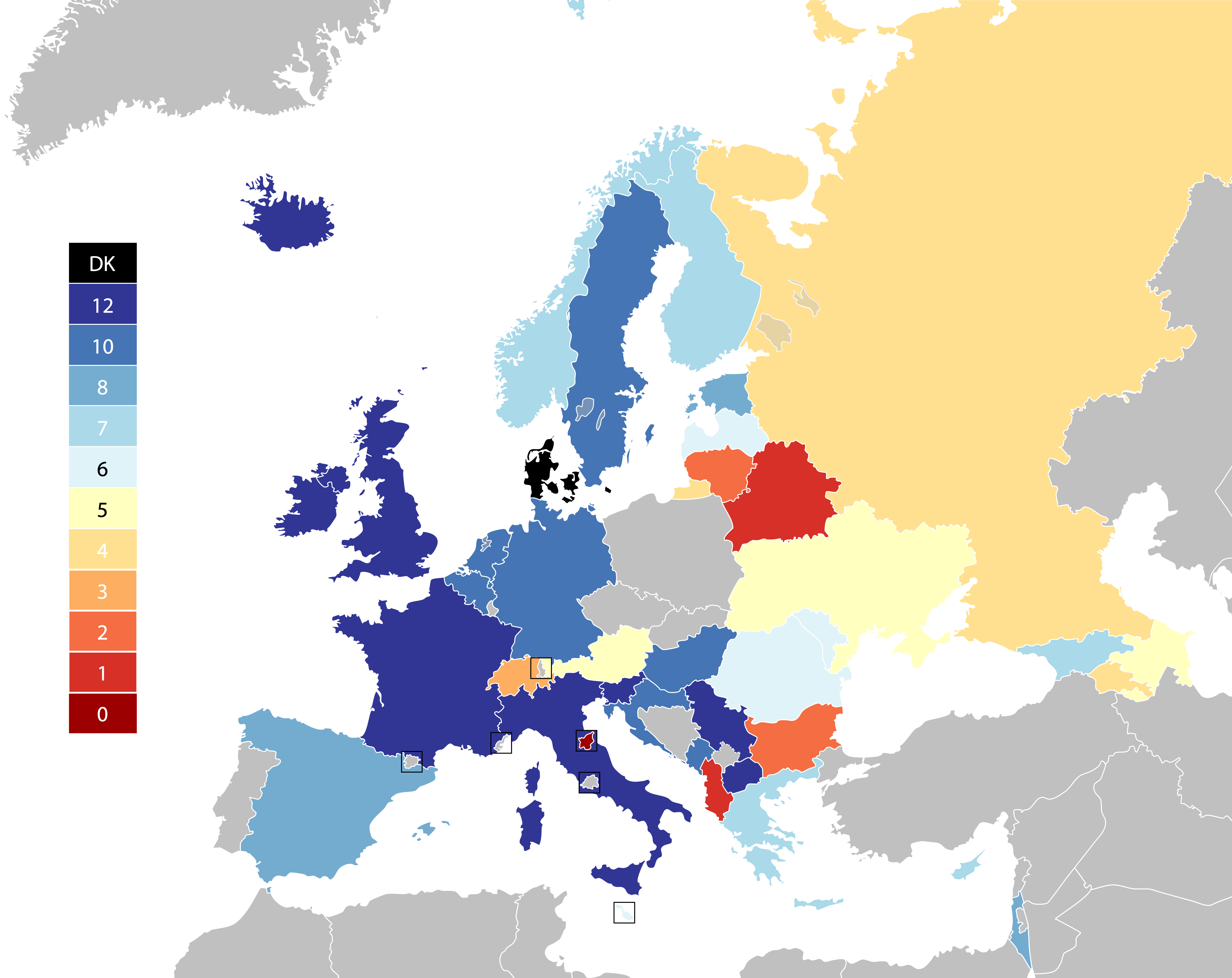 Points allocated to Danmark in the ESC 2013